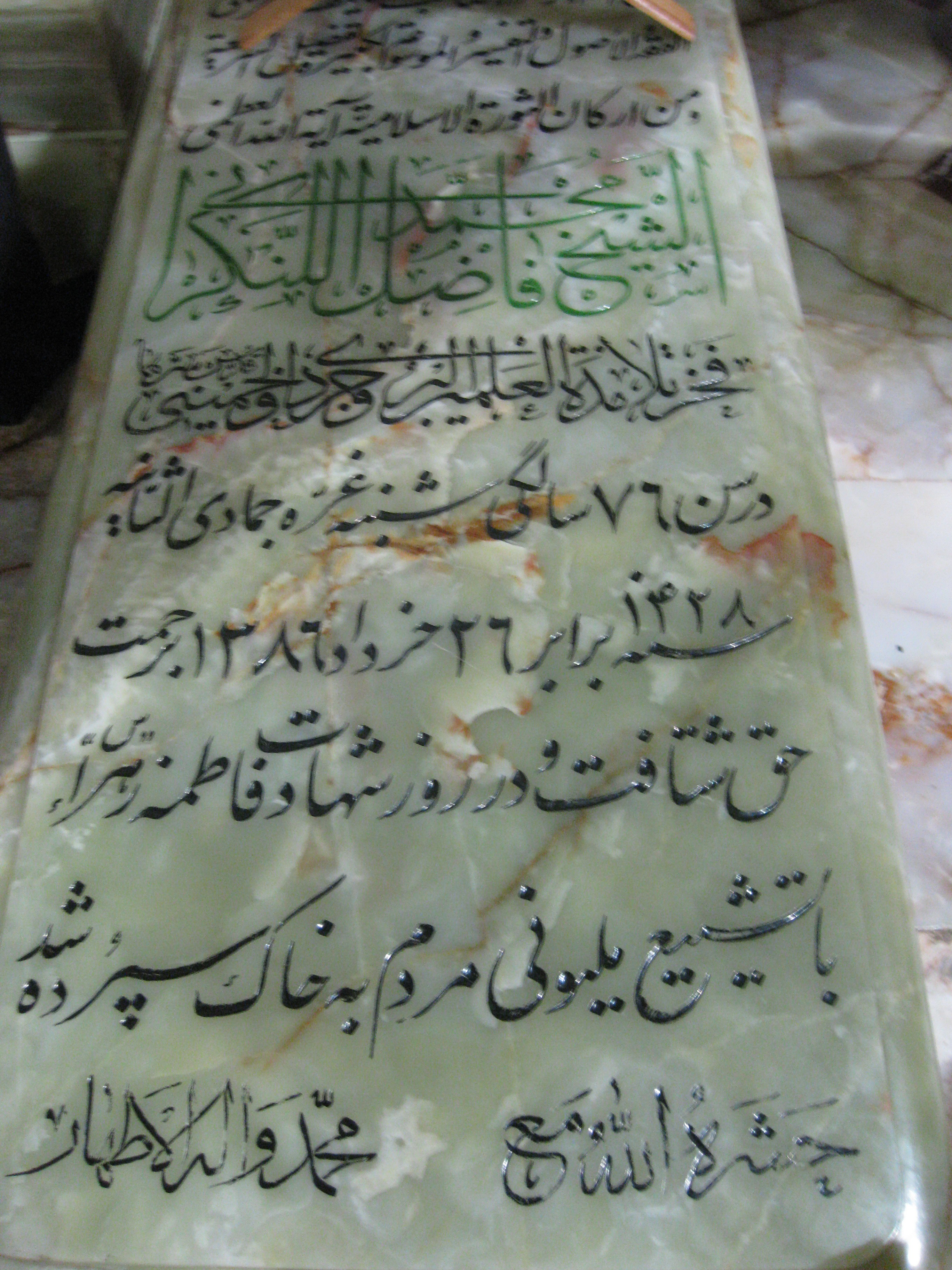 Tomb of Mohammad Fazel Lankarani; In Shrine of Fatimah Ma'sūmah, Qom, Iran.